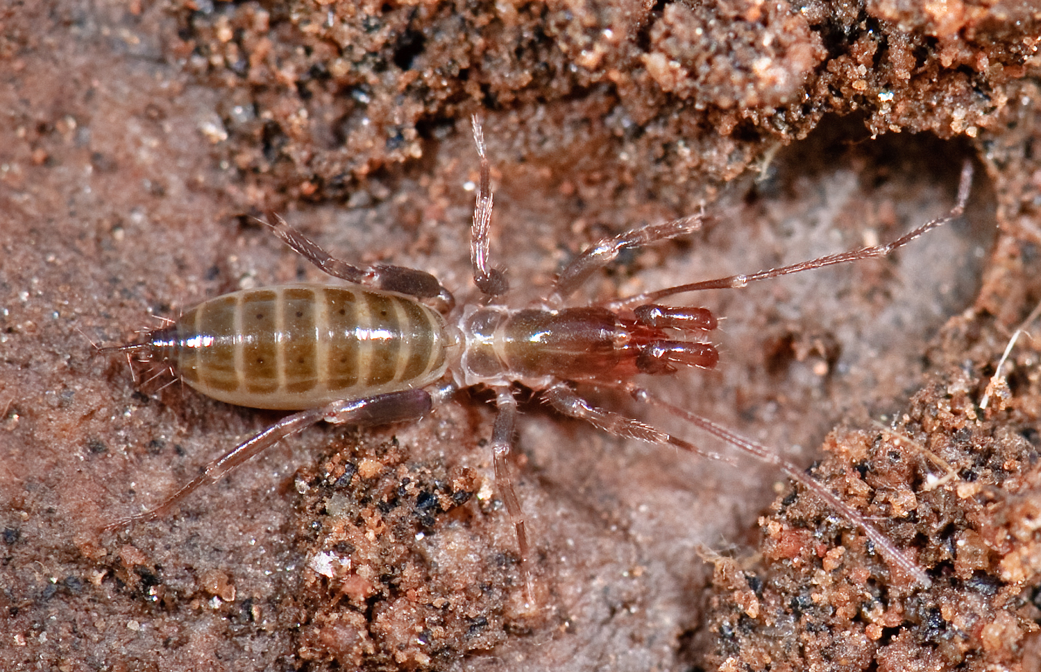 Schizomid Hubbardia pentapeltis. Photo taken in Valley Center, California, USA.